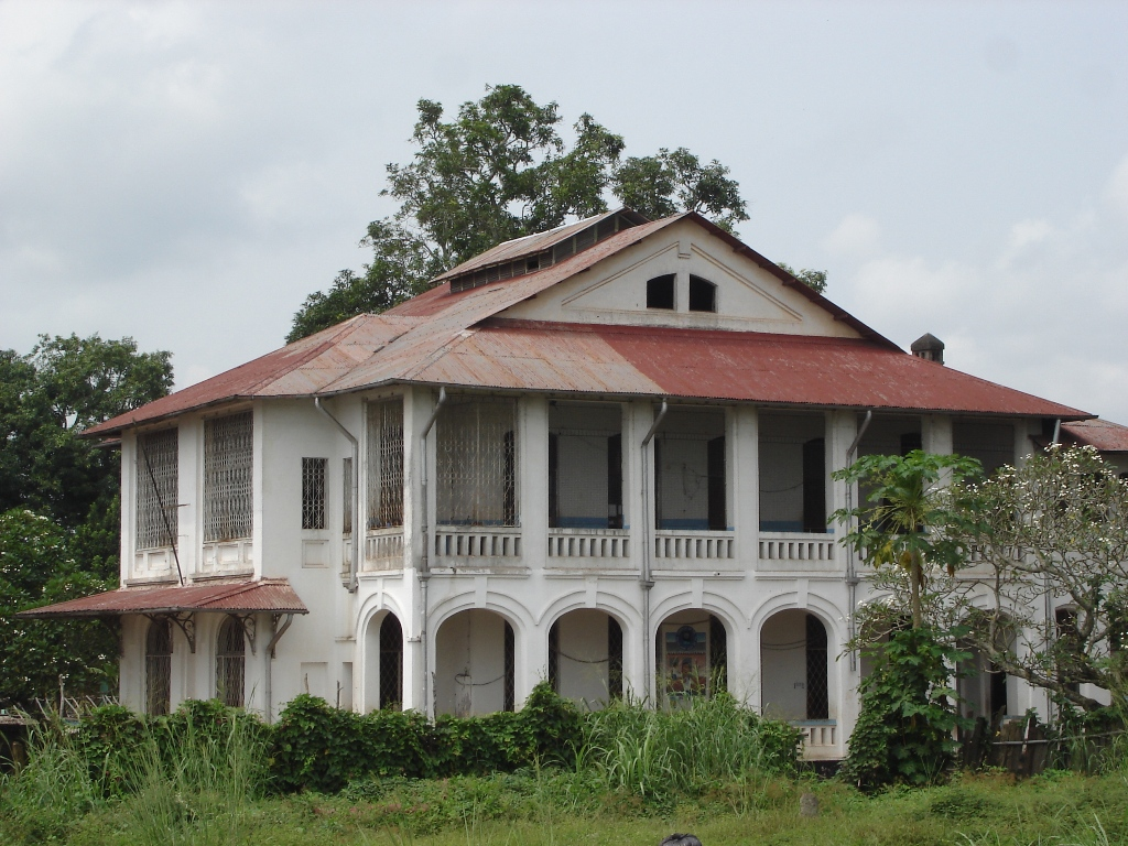 Former building of the Banque du Congo belge in Mbandaka (formerly Coquilhatville). Photo 2008.